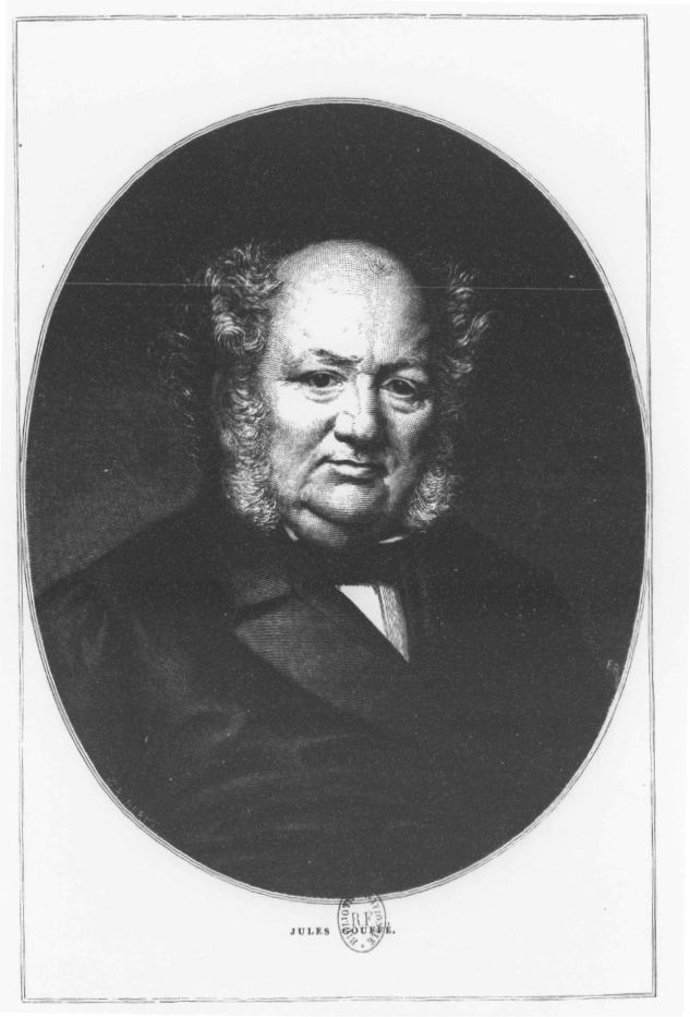 Jules Gouffé portrait from "Le Livre de Pâtisserie"